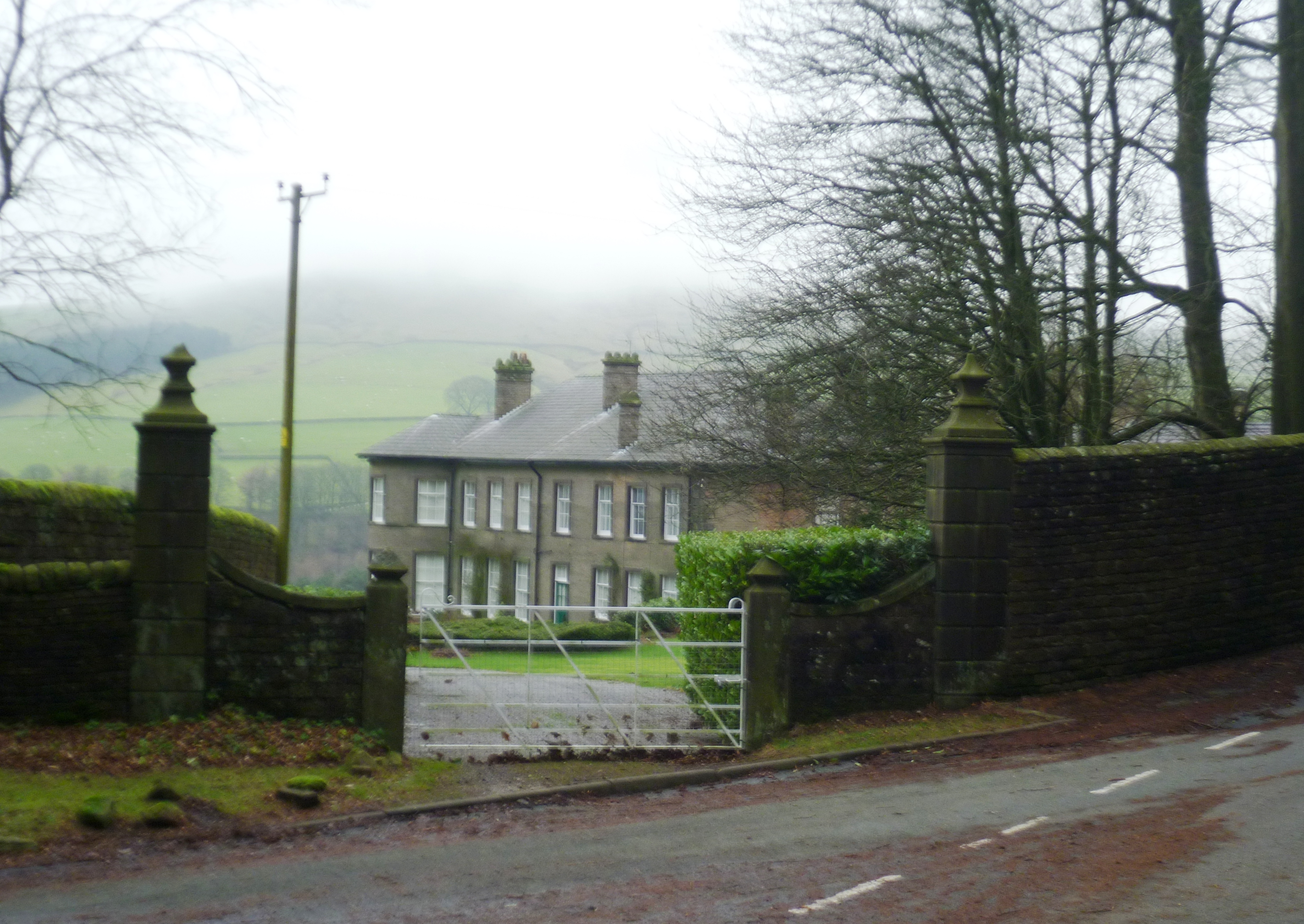 Photograph of Crag Hall, Wildboarclough